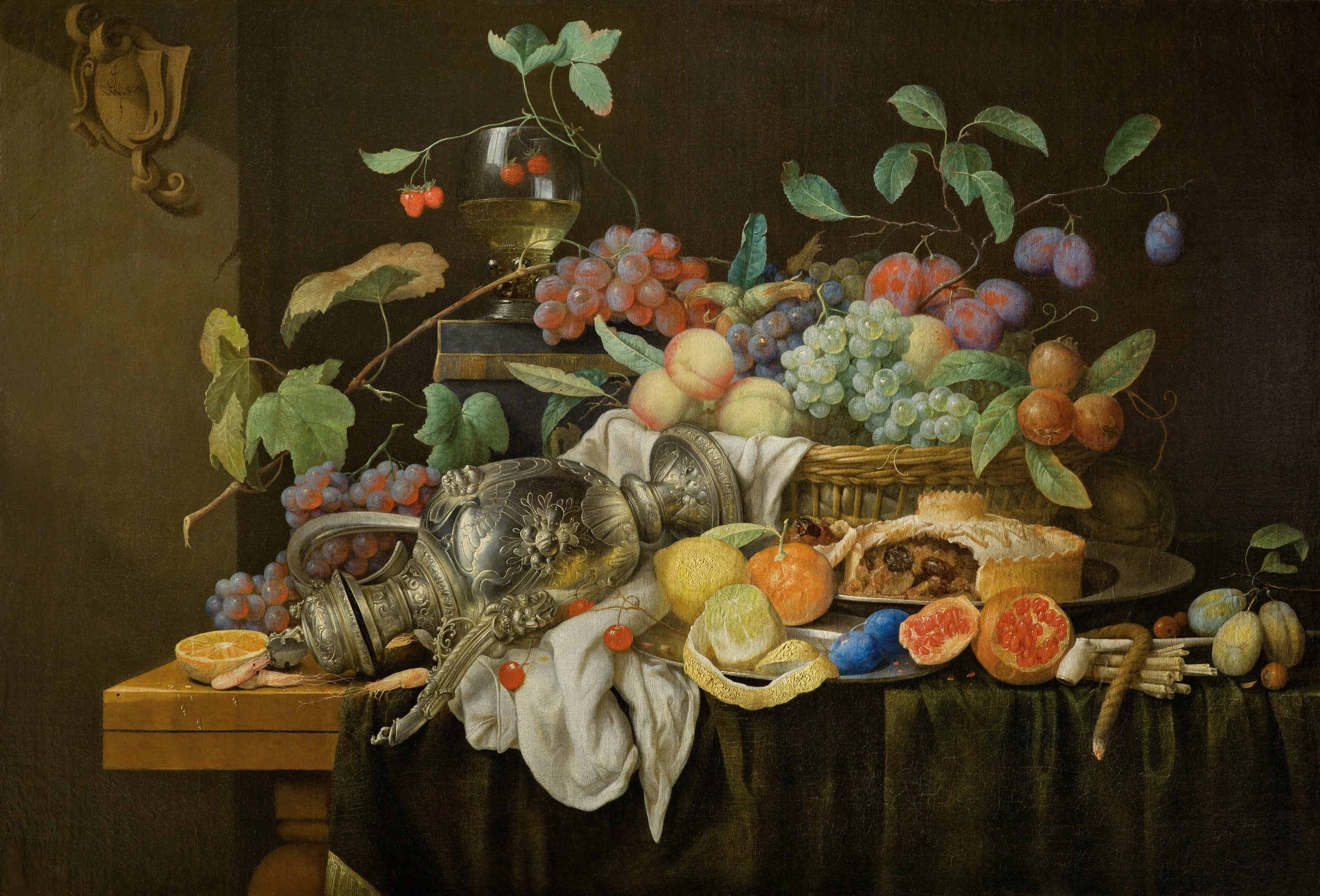 Pronk Still Life with Overturned Silver Ewer by Joris van Son, Oil on canvas, 80 x 116.8 cm, Hohenbuchau Collection, on permanent loan to Liechtenstein, The Princely Collections, Vienna